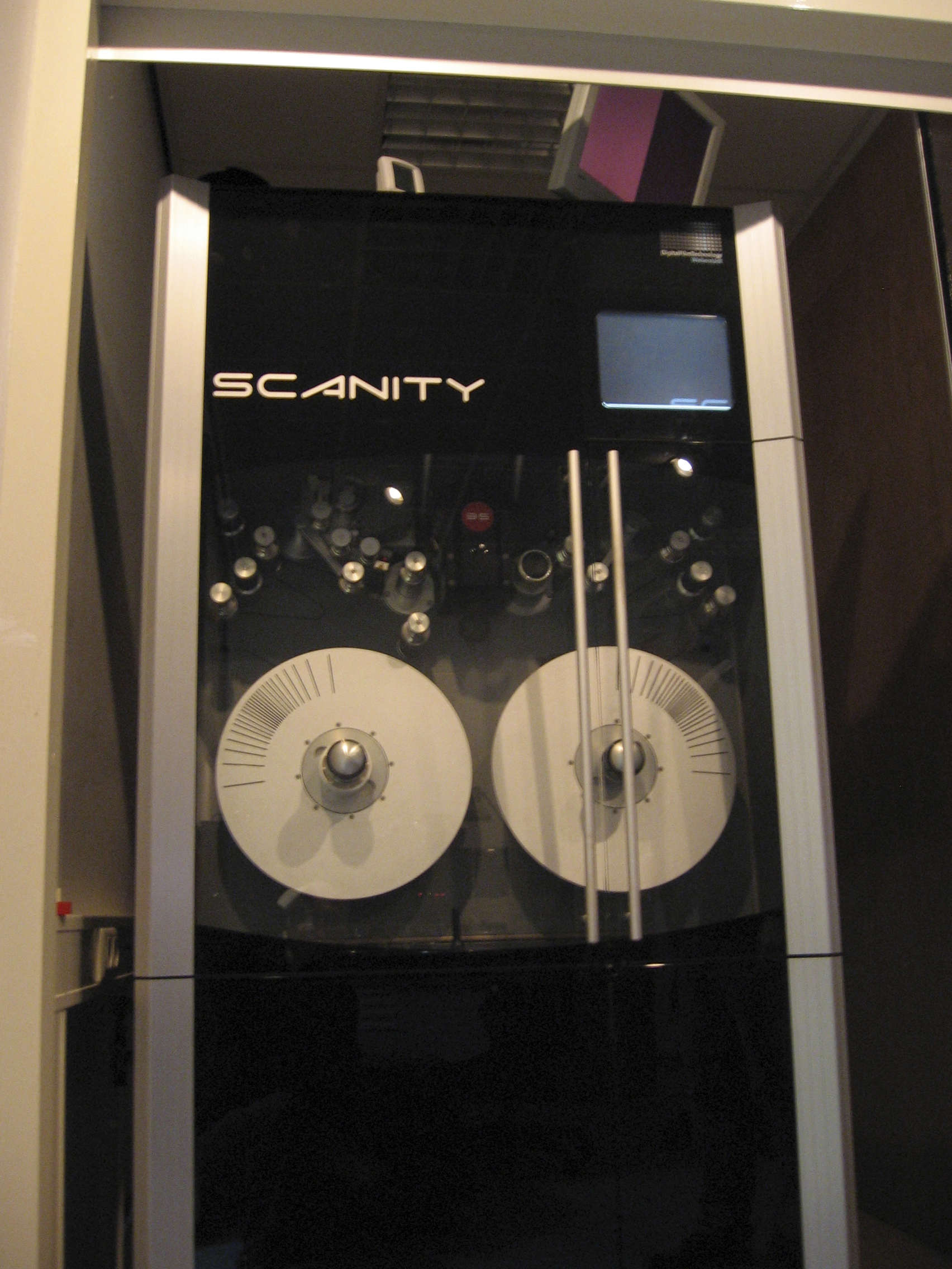 Film digitisation, EYE Film Institute Netherlands, Dependency Collections, Overamstel, Amsterdam